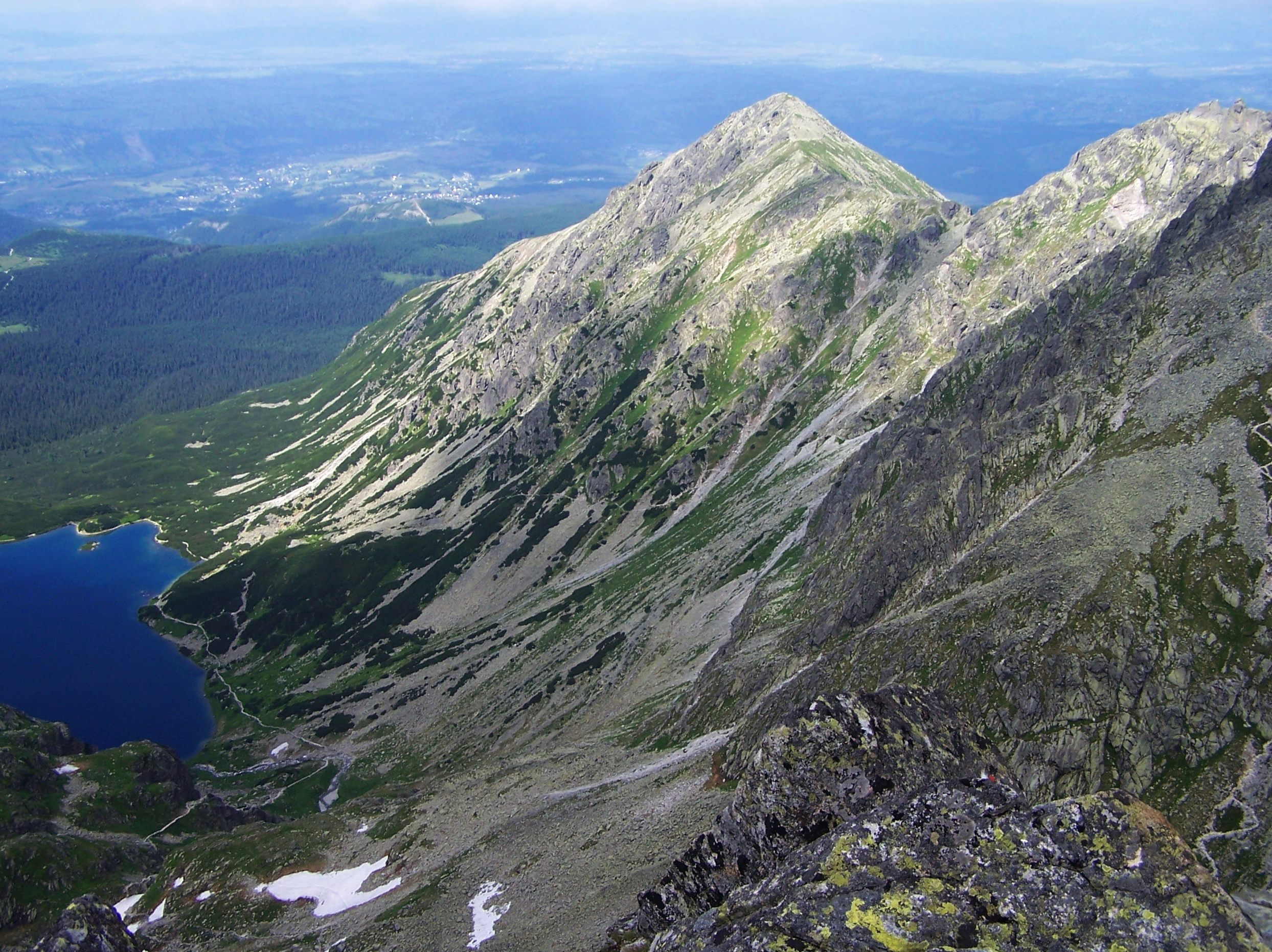 Żółta Turnia (High Tatras)